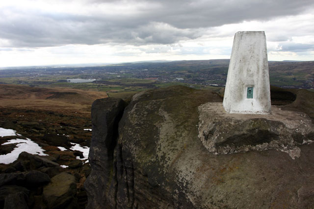 Blackstone Edge. The summit: 472m. Looking west towards Rochdale.